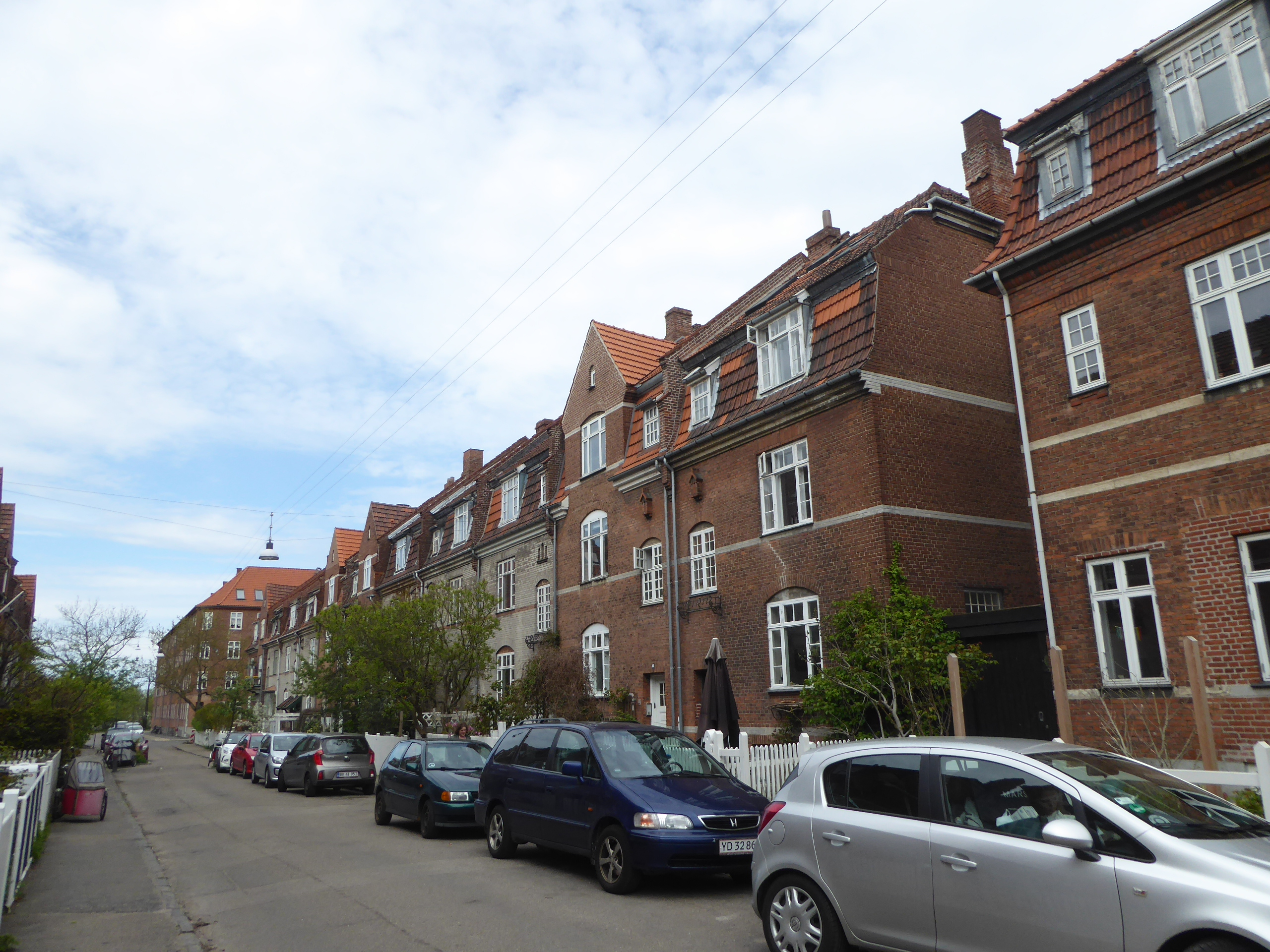 Apartment buildings at Engelstedsgade in Østerbro in Copenhagen.